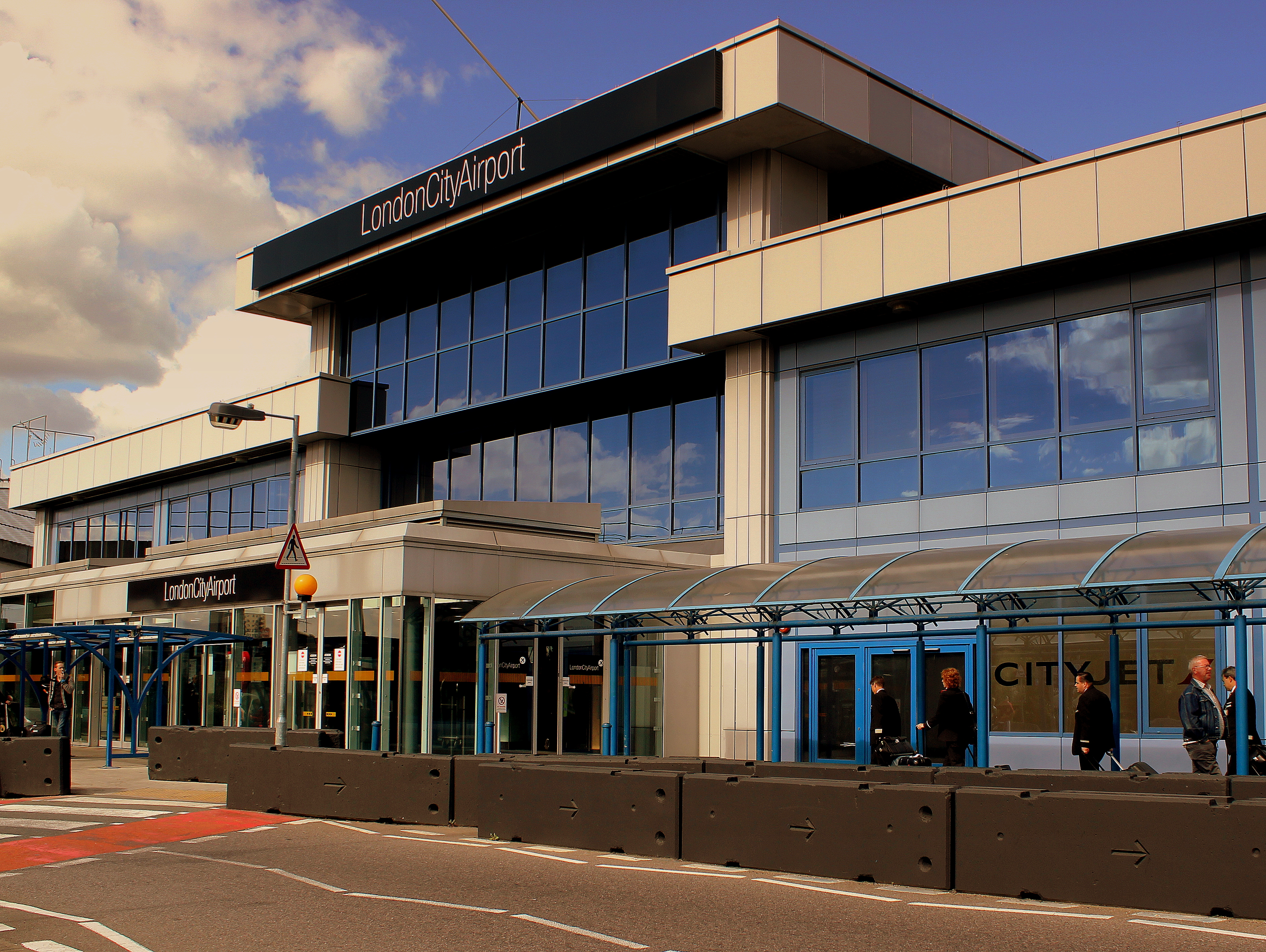 LONDON CITY AIRPORT SEP 2012